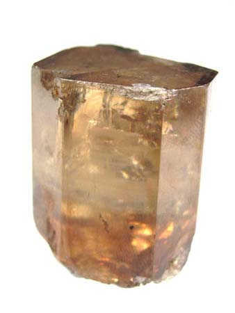 Phosgenite Locality: Monteponi Mine, Iglesias, Carbonia-Iglesias Province, Sardinia, Italy (Locality at ) A relatively large and thick crystal, with fine form, of an Italian classic that is extremely difficult to obtain in gem crystals, and virtually unobtainable in a specimen as glassy and gemmy as this one. You could actually cut largish rare gemstones from this superb crystal! The crystal is complete on the display face, with fine lustrous faces, and has natural contact faces on the bottom and back. It is undamaged anc complete save for a few very minor spots on the bottom, and is damned near doubly terminated. There are a couple of small rough spots at the edge of the termination in front, that may be a bit of contact or simply growth oddity (hard to tell) ; but the important thing about this crystal is not pristine condition, but rather its through-and-through gemminess, particularly for its size. Purchased by a local Dallas collector at the Desert Inn , back in 1987 3.0 x 3.0 x 2.5 cm